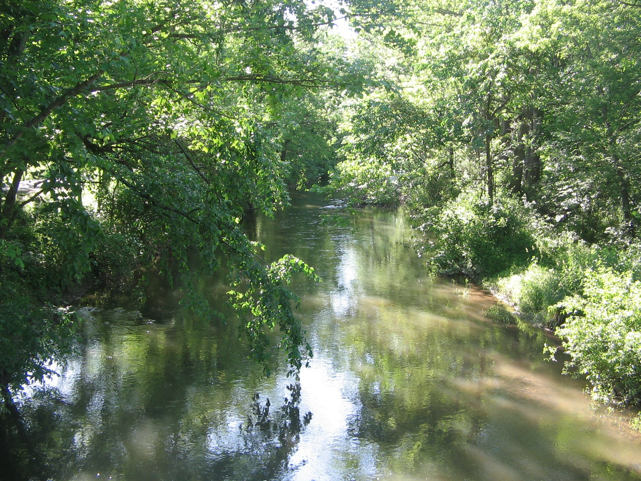 White Deer Hole Creek, just downstream (east) of confluence with Spring Creek, Gregg Township, Union County, Pennsylvania, USA